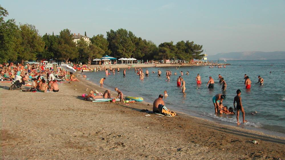 Beach of the city (Crni molo) Crikvenica, Croatia